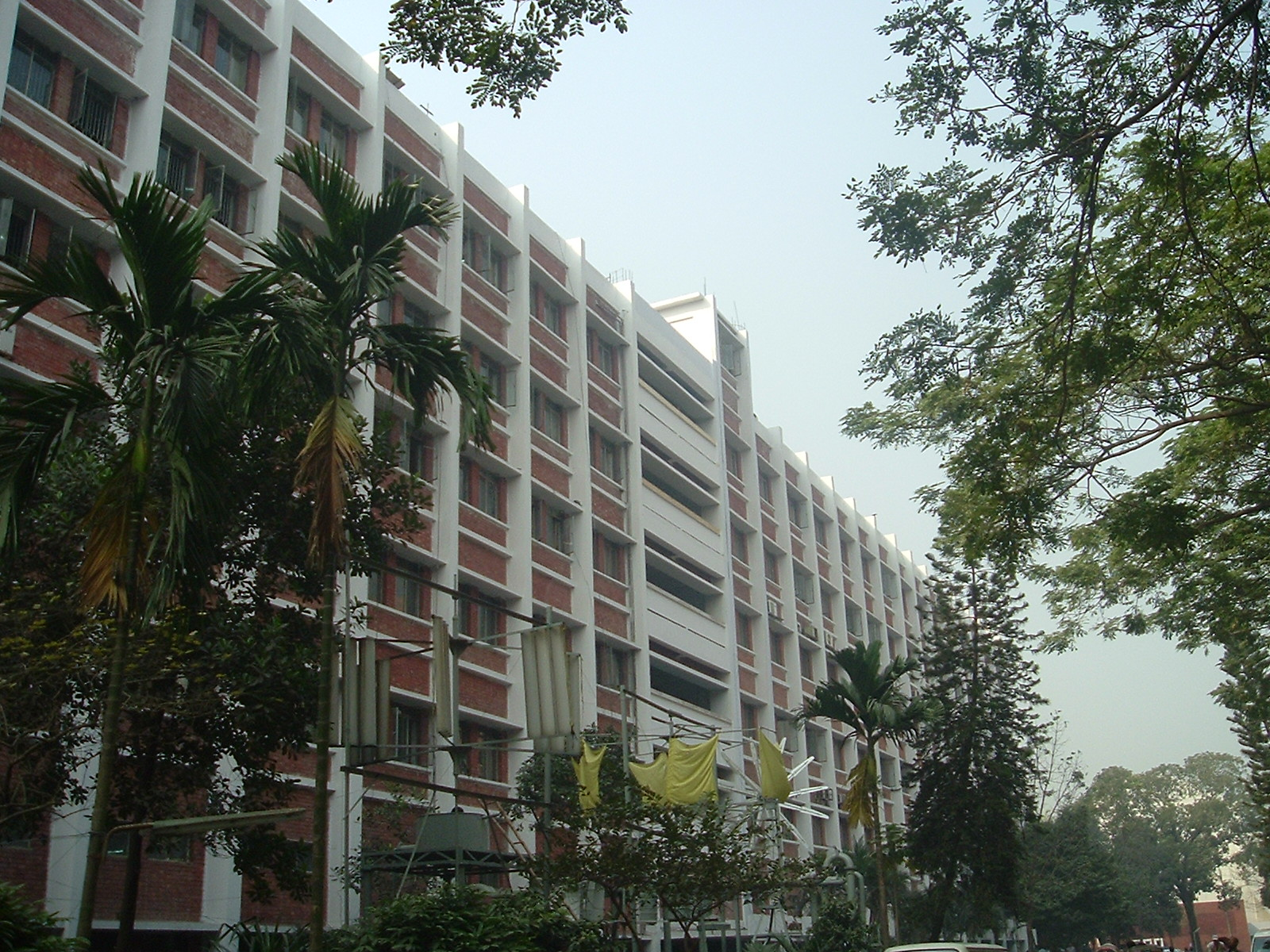 Photo taken by Ashique Mahmud Rupam